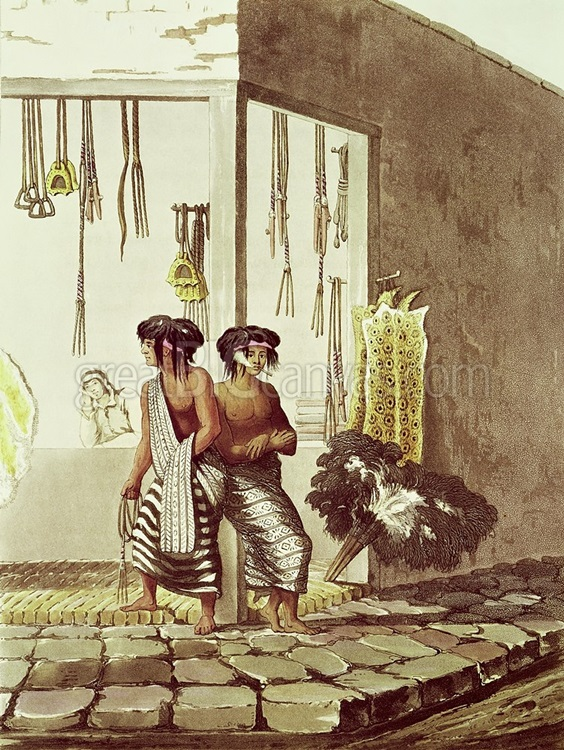 Pampa Indians, from "Picturesque illustrations of Buenos Ayres and Monte Video, consisting of twenty-four views: accompanied with descriptions of the scenery, and of the costumes, manners, &c., of the inhabitants of those cities and their environs". Engraving by Emeric Vidal (1843), based on a sketch made between 1816 and 1819. It shows two Pampas Indians visiting Buenos Aires. The two individuals pose at the door of a store in the Indian market of the city where ponchos, leather clothing, and rhea feathers were traded for acohol, mate, sugar, foodstuff, and metal tools. From: The Bodleian Libraries, The University of Oxford (2098 e. 65 following p. 88 (Facsimile)). Source of this file description is Peter Mitchell: Horse Nations. The Worldwide Impact of the Horse on Indigenous Societies Post-1492, Oxford 2015, Fig. 8.6, p. 266.